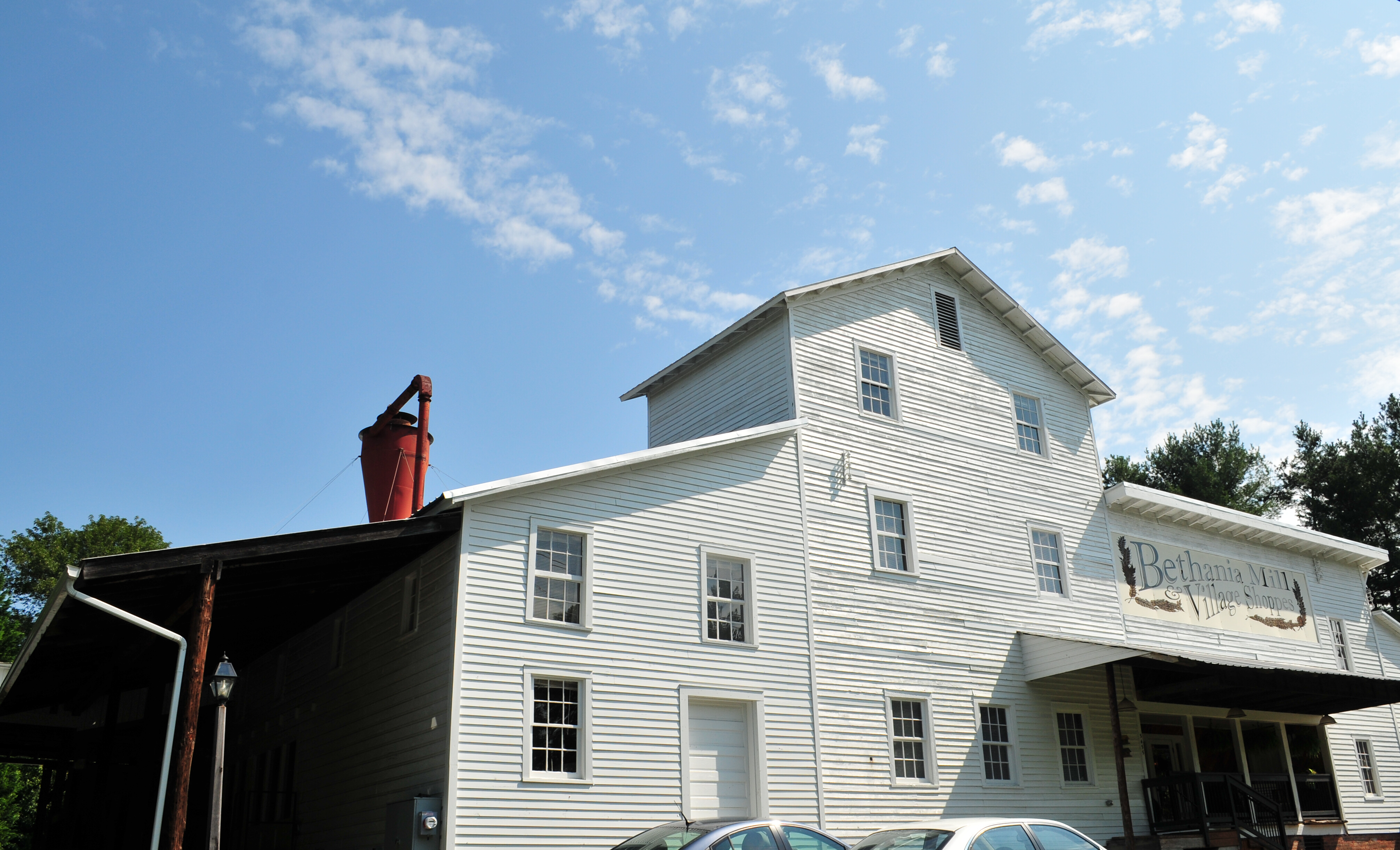 Bethania Historic District, North of Winston-Salem on NC 65, SR 1611, 1628, and 1688• Boundary increase (listed Template:Dts, refnum 91000346): Roughly the area outside the original district west and north along Muddy Creek, south to Reynolda Rd., and east along Walker Rd.